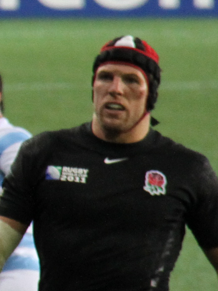 England rugby union player James Haskell at the 2011 Rugby World Cup during the stage match against Argentina